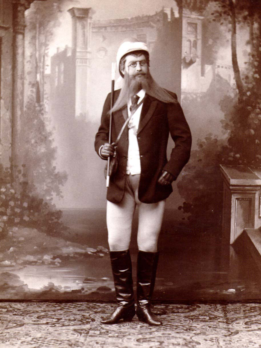 Photo of Russian opera singer Petr Lodiy (1855-1920)